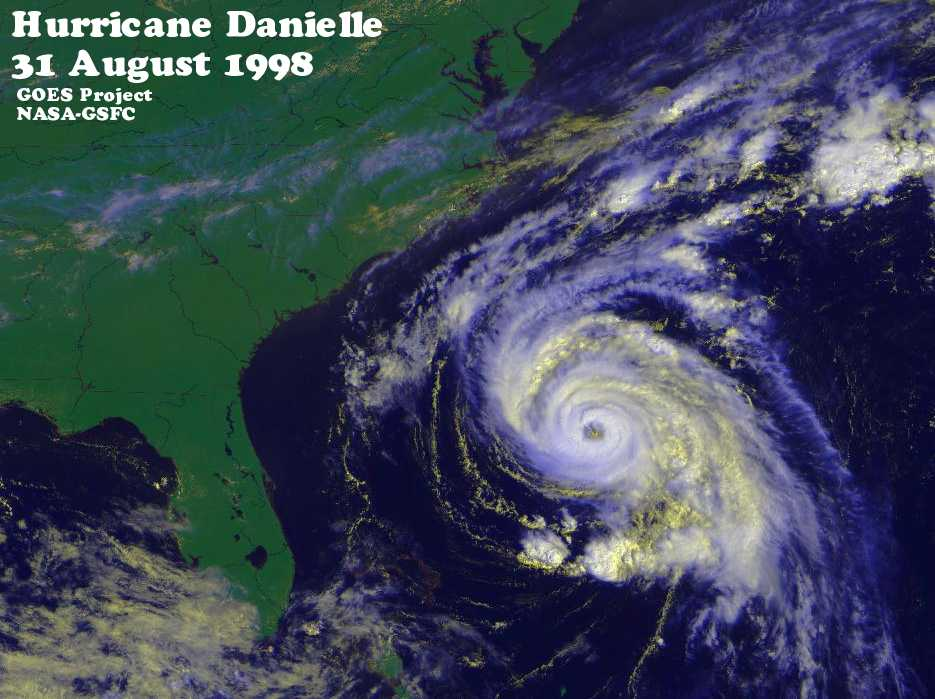 Hurricane Danielle off the Eastern Seaboard of the United States as a Category 2 hurricane.